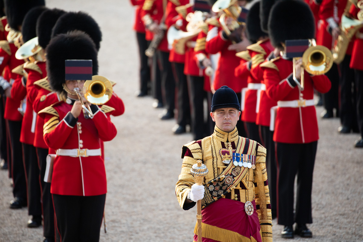 Arrival ceremony at Blenheim Palace / July 12, 2018 (Official White House Photo by Shealah Craighead)